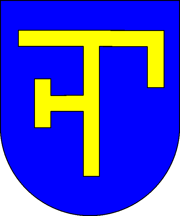 Coat of arms of the bishopric of Kammin